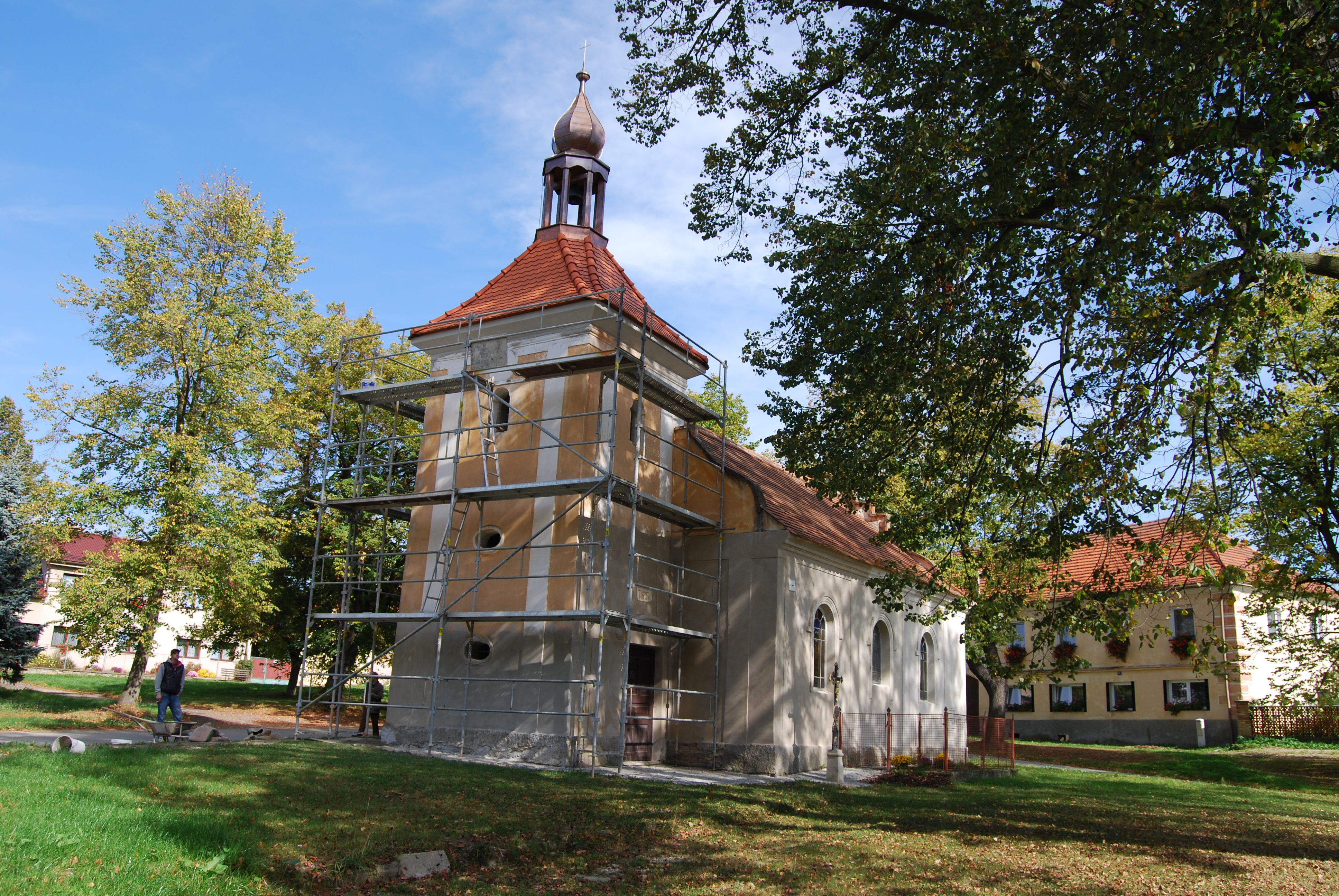 Hracholusky village in Prachatice District, Czech Republic. Chapel